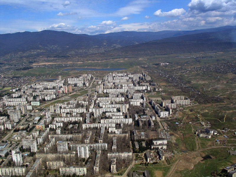 Gldani from the helicopter